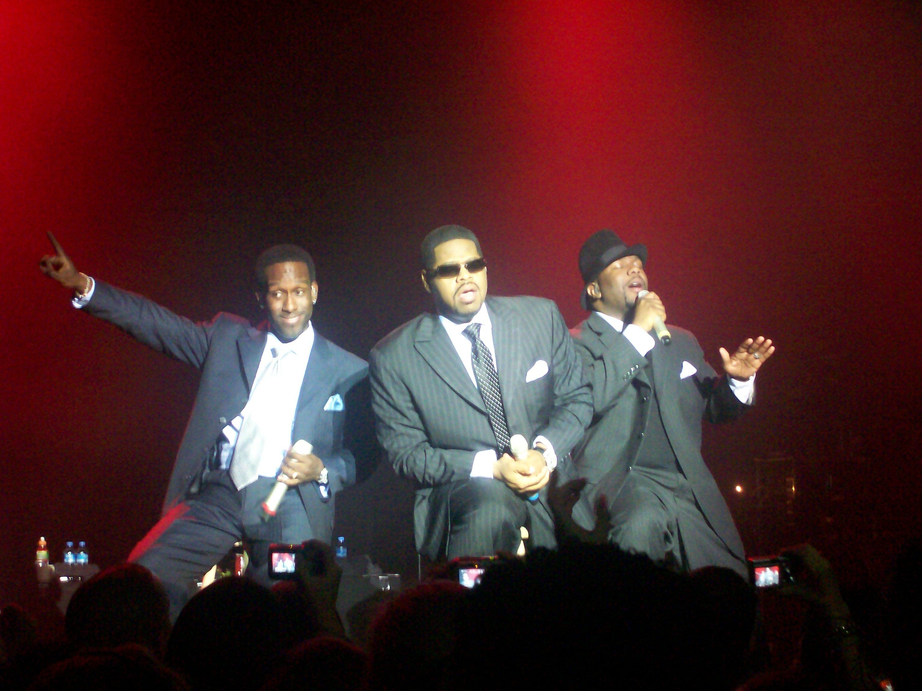 Boyz II Men Live at Vega (April 7, 2008).